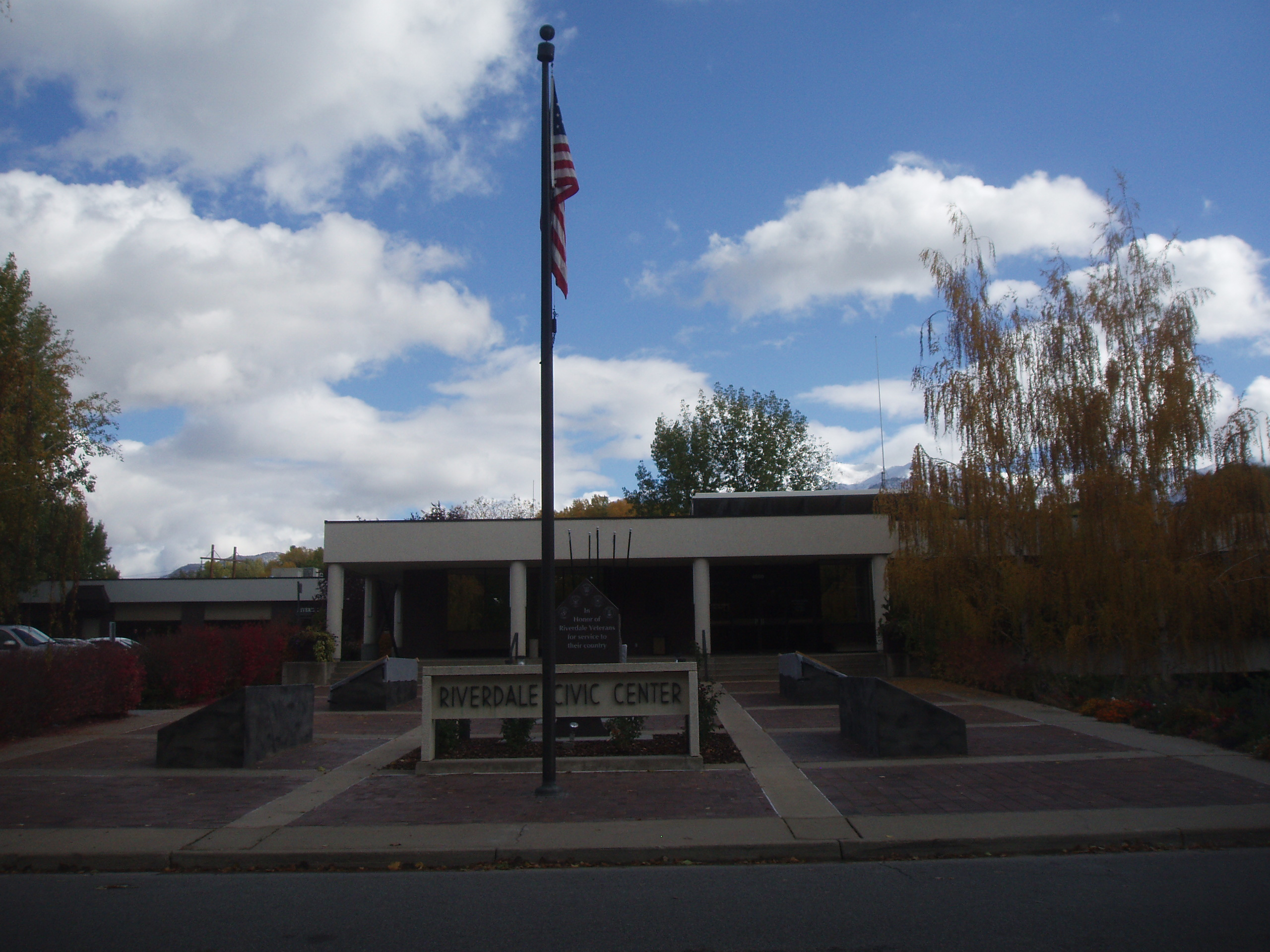 Riverdale Civic Center, Riverdale, Utah, United States.